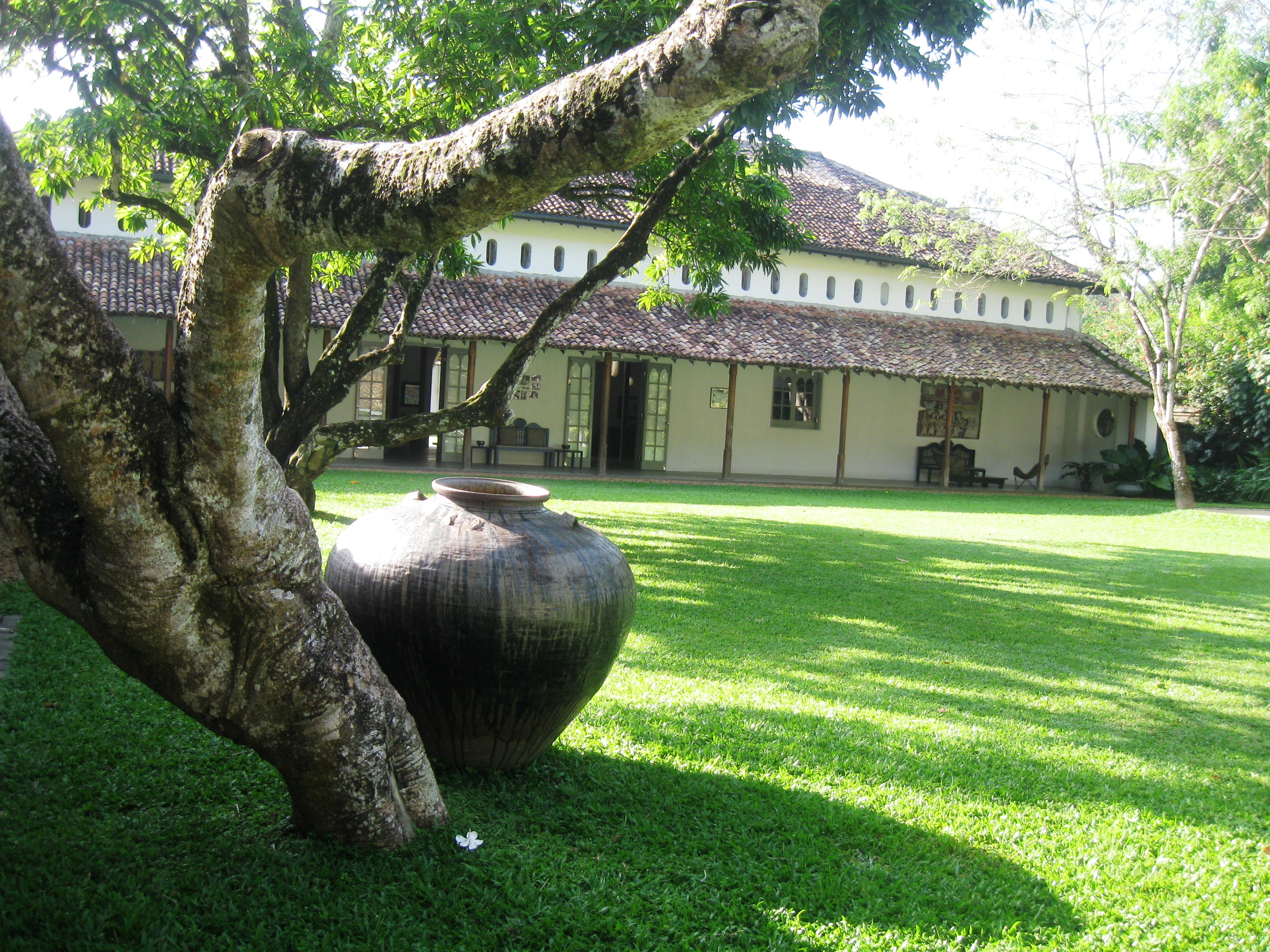 Photograph of Mrs.Sunethra Bandaranaike's residence at Horagolla, Sri Lanka